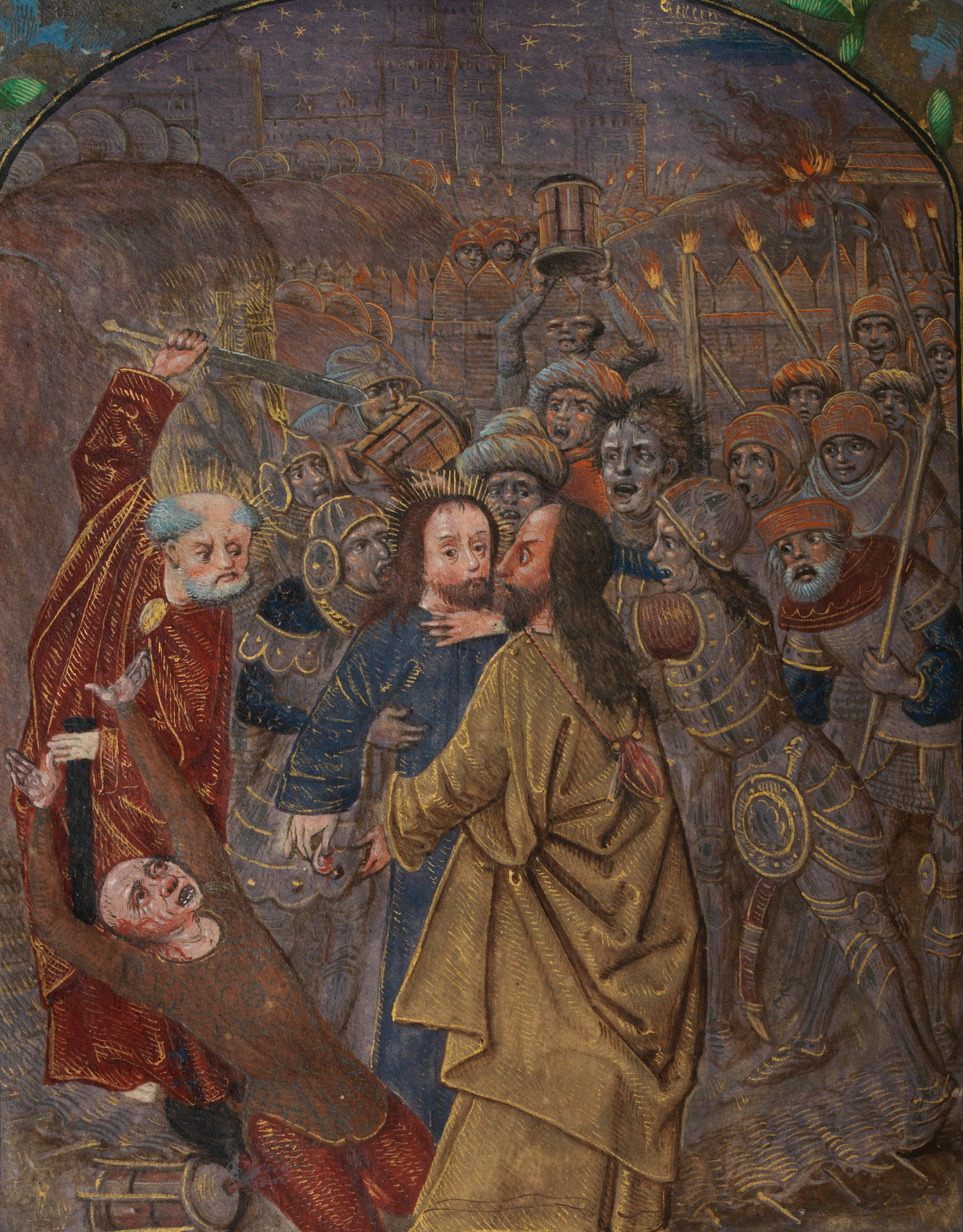 The Betrayal. Peter raises his sword; Judas hangs himself